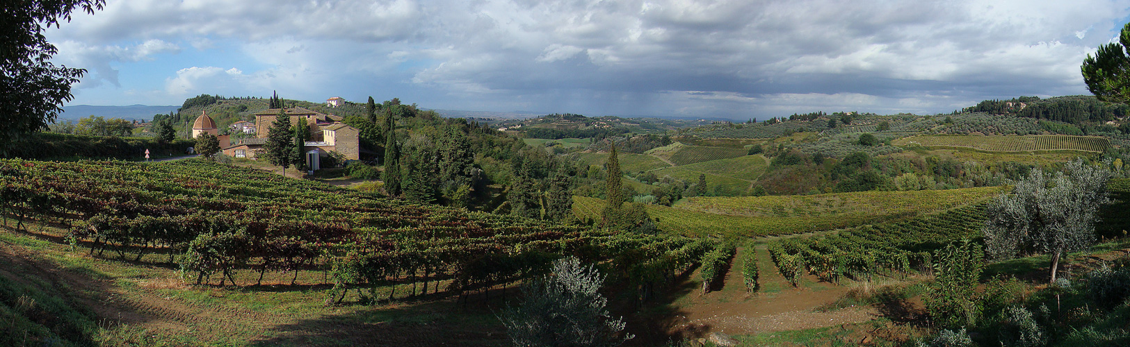 Vineyards near Certaldo, Tuscany, Italy.